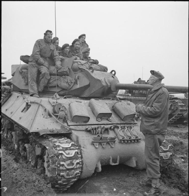 The British Army in North-west Europe 1944-45 Major-General C M Barber, GOC of 15th (Scottish) Division in conversation with the crew of an Achilles 17-pdr tank destroyer near Goch, 20 February 1945.